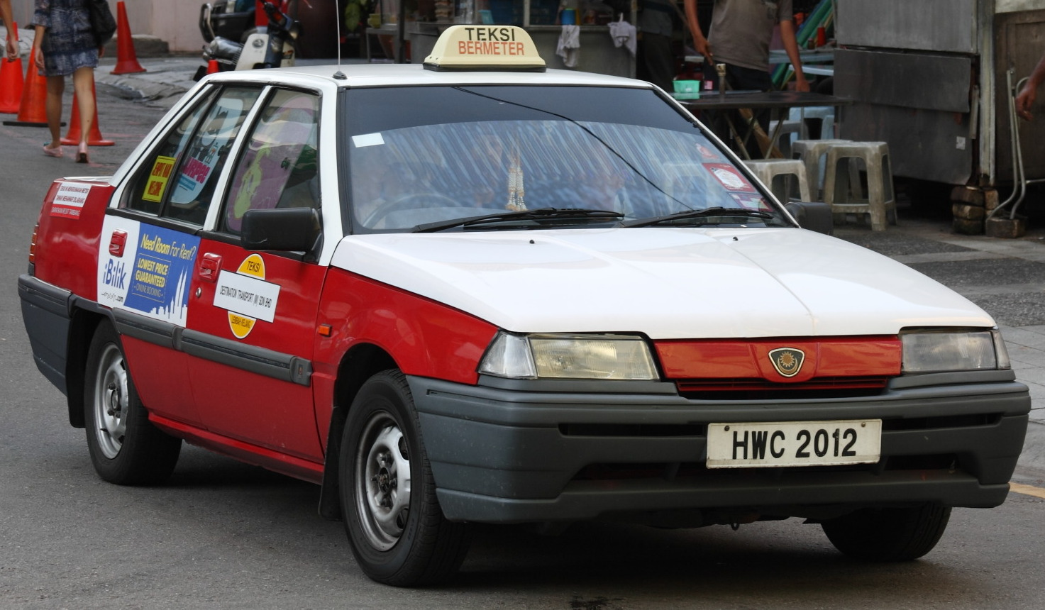 Taxi in Kuala Lumpur, Malaysia